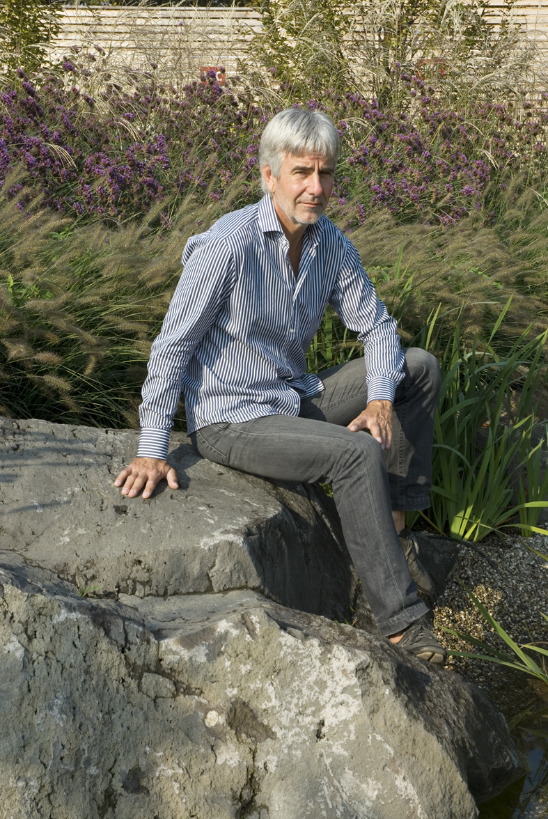 The german gardendesigner Peter Berg from Sinzing at the Rhine river sits on a basaltrock. It is part of his pavillon at the national flower show "Bundesgartenschau Koblenz 2011".